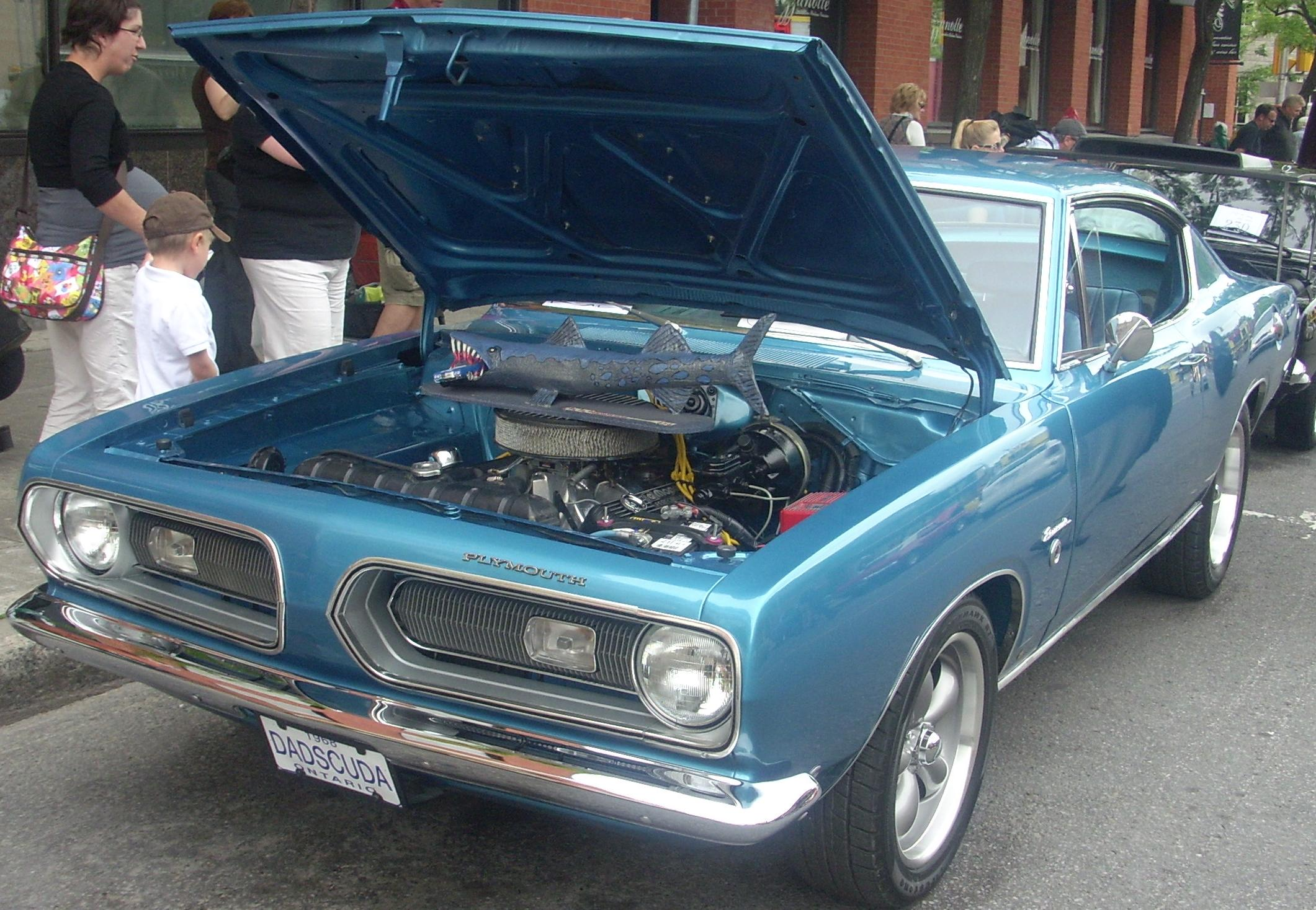 1968 Plymouth Barracuda photographed in Ottawa, Ontario, Canada at the Byward Market Auto Classic 2009.